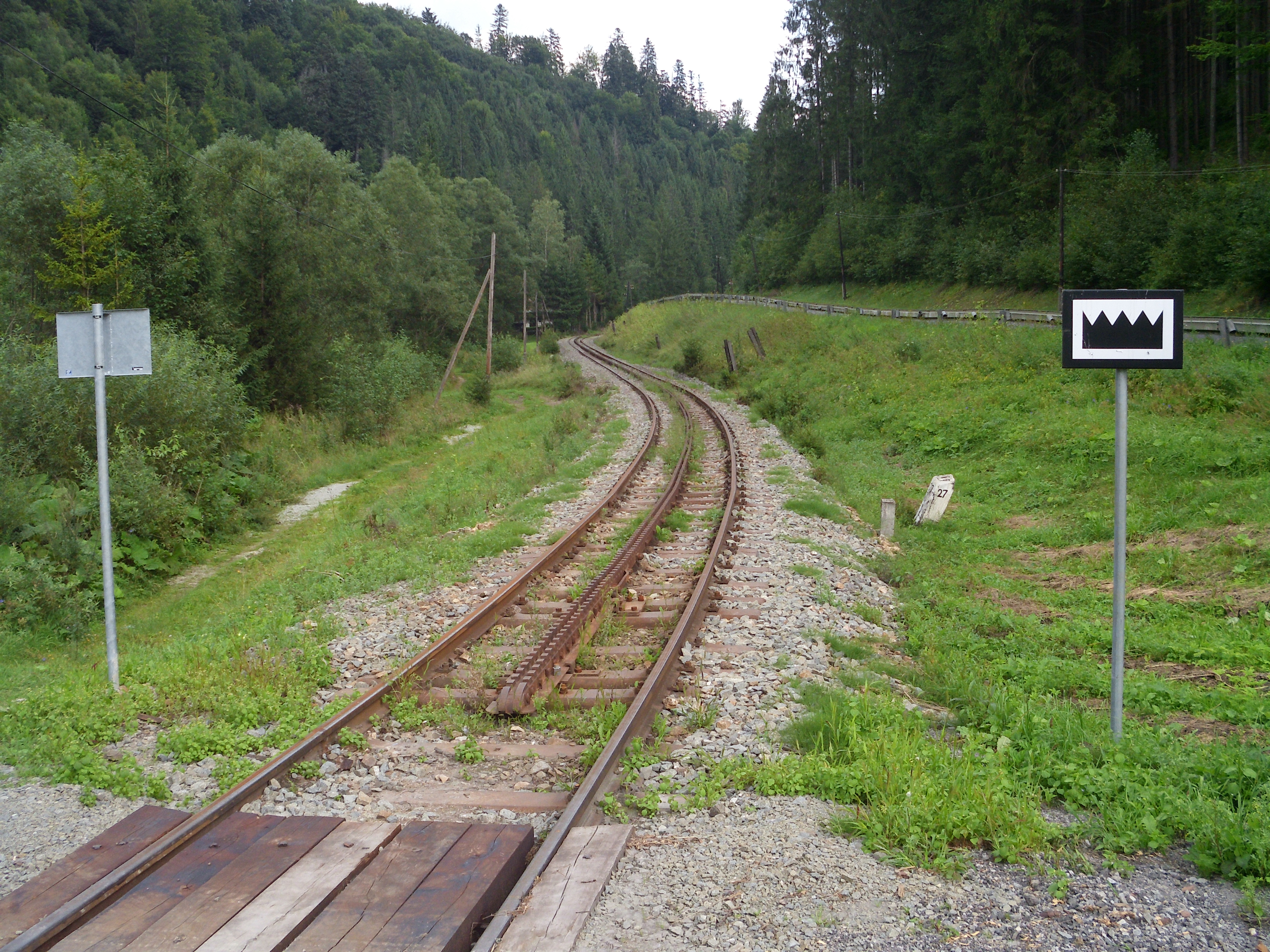 The beginning of a rack on a cogwheel portion of a rail line from Brezno to Jesenské in Slovakia, between Pohronská Polhora and Zbojská stations. A sign at the right of the track indicates this to train drivers.